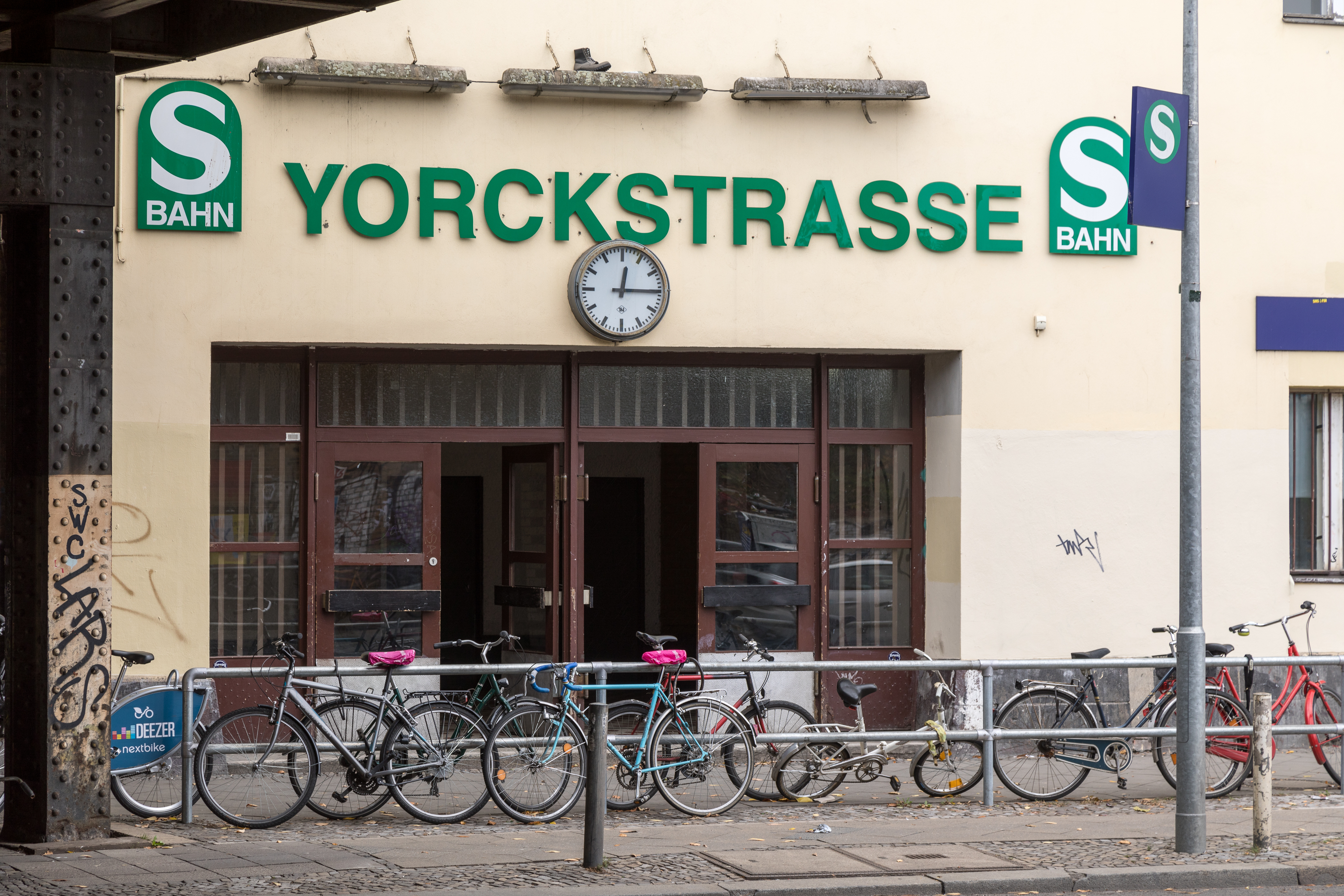 Entrance S-Bahn station Yorckstrasse in Berlin